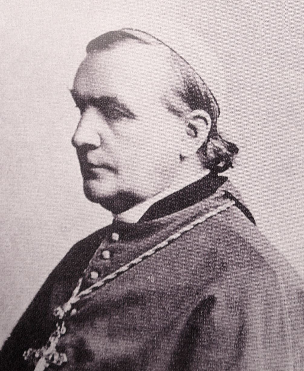 French archbishop Theodore-Augustin Forcade